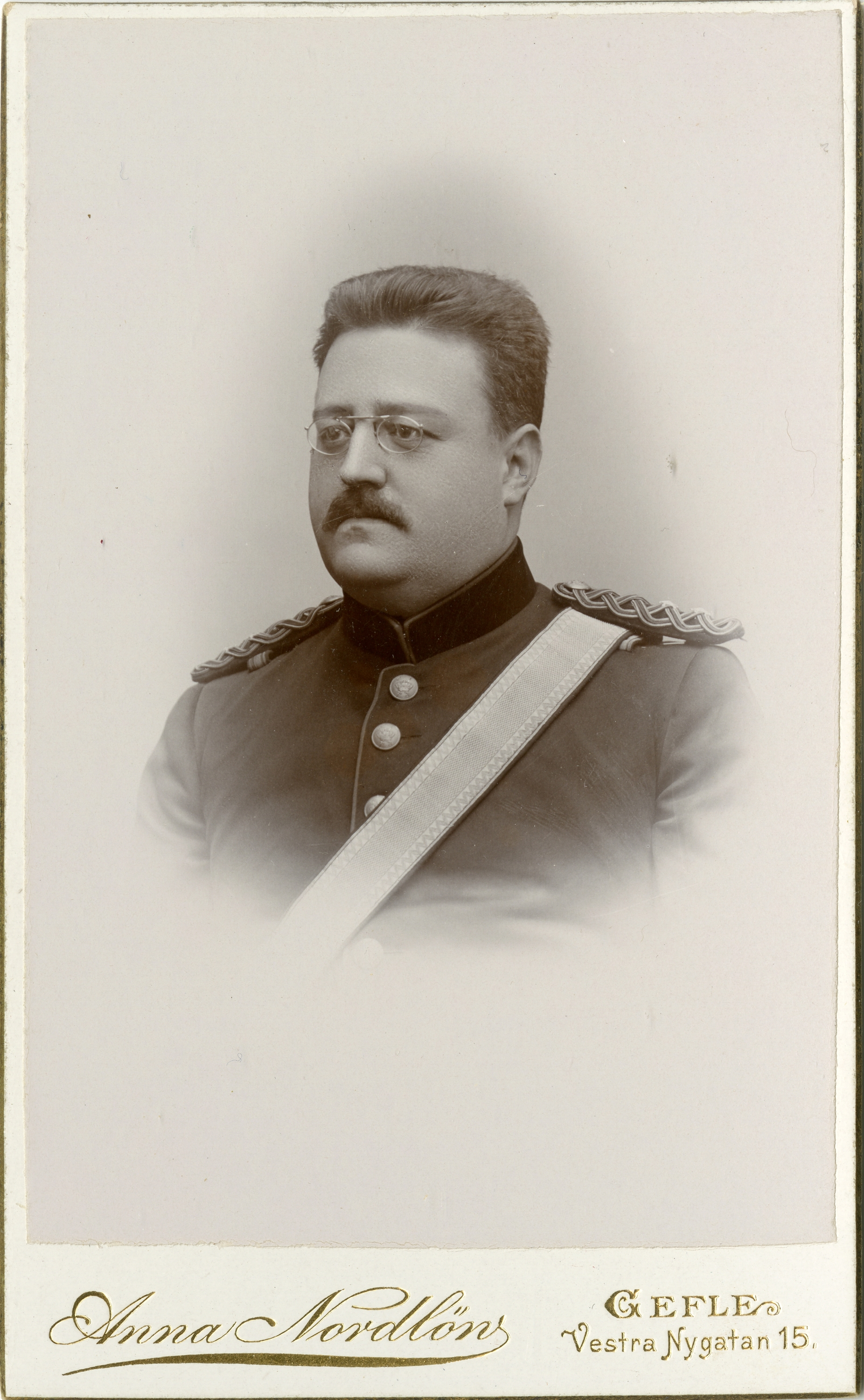 Gustaf Arpi (1858-1916), Swedish physician. Belongs to the Army Museum Sweden archive